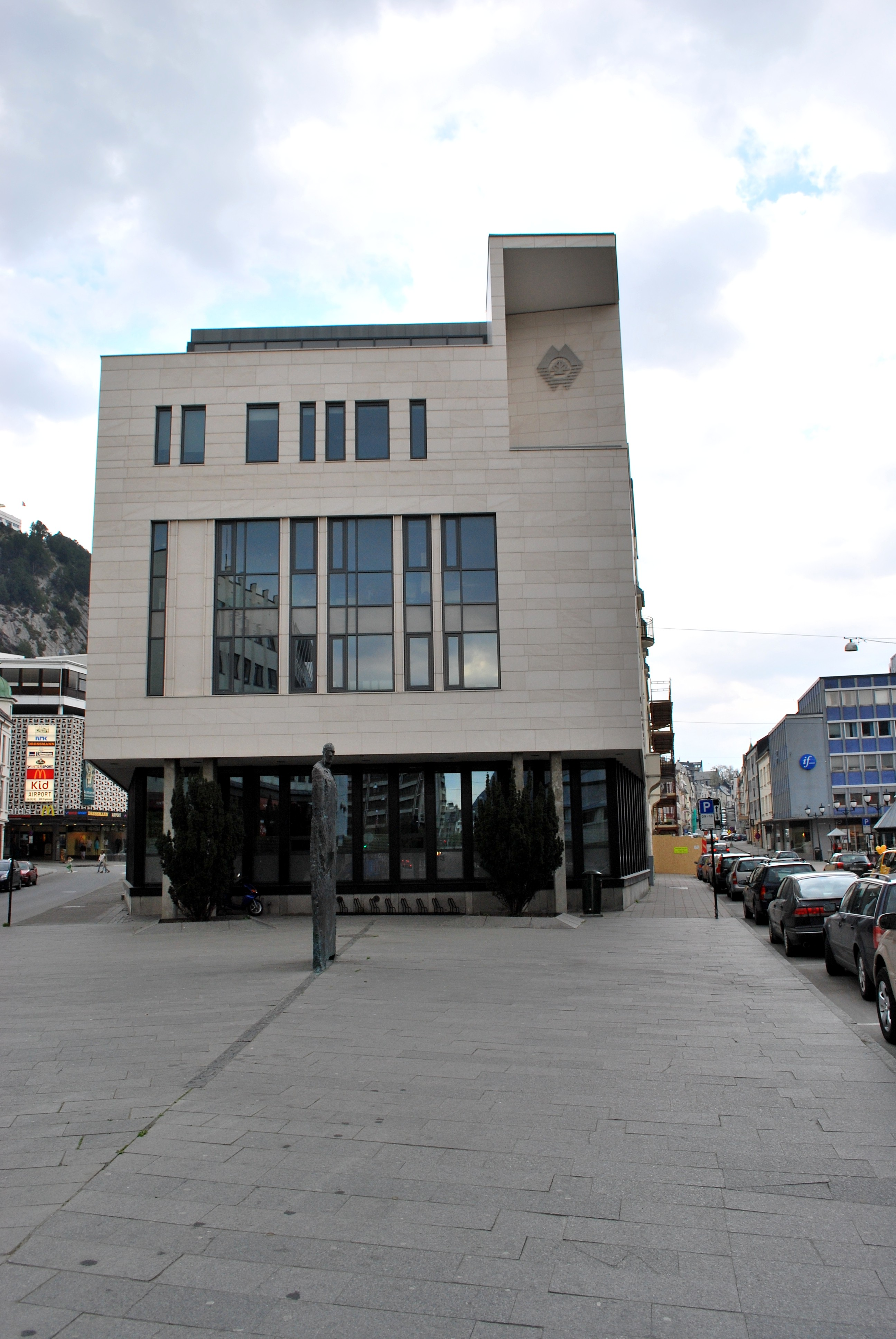 Harald Torsviks plass, Sparebanken Møre, Ålesund.